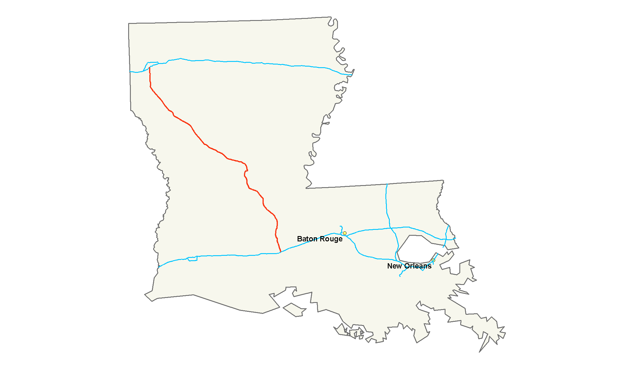 Map of Interstate 49